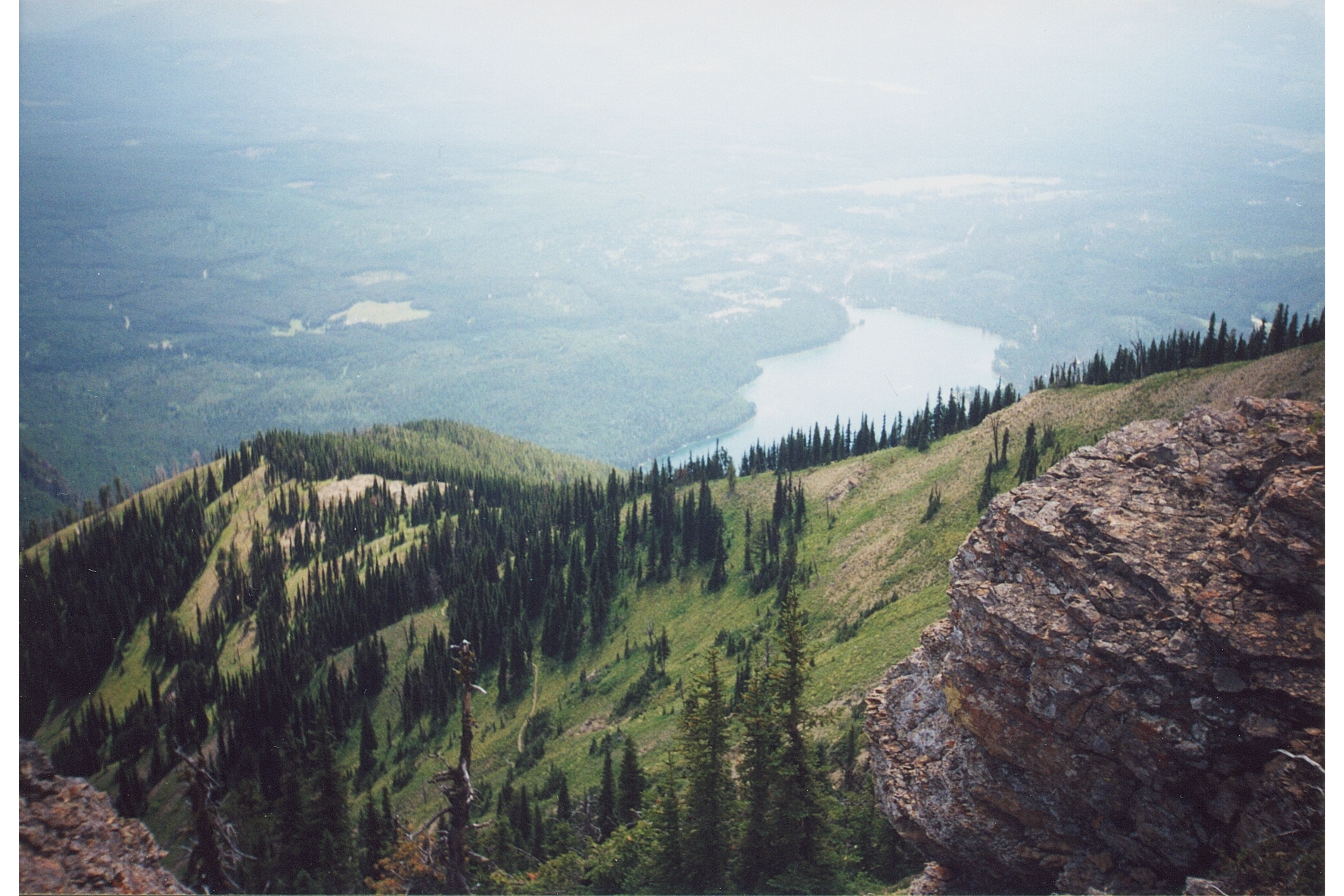 Looking west from the crest of the Swan Range, Montana, down on the Seeley-Swan Valley and Holland Lake. Photo taken summer 2000 by John David Stutts.